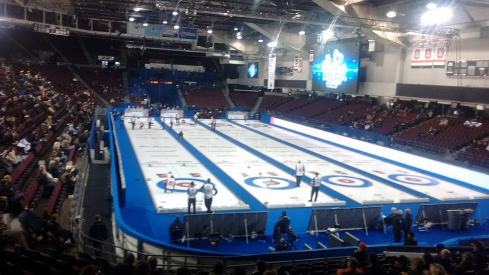 2016 Tim Hortons Brier prequalifiers